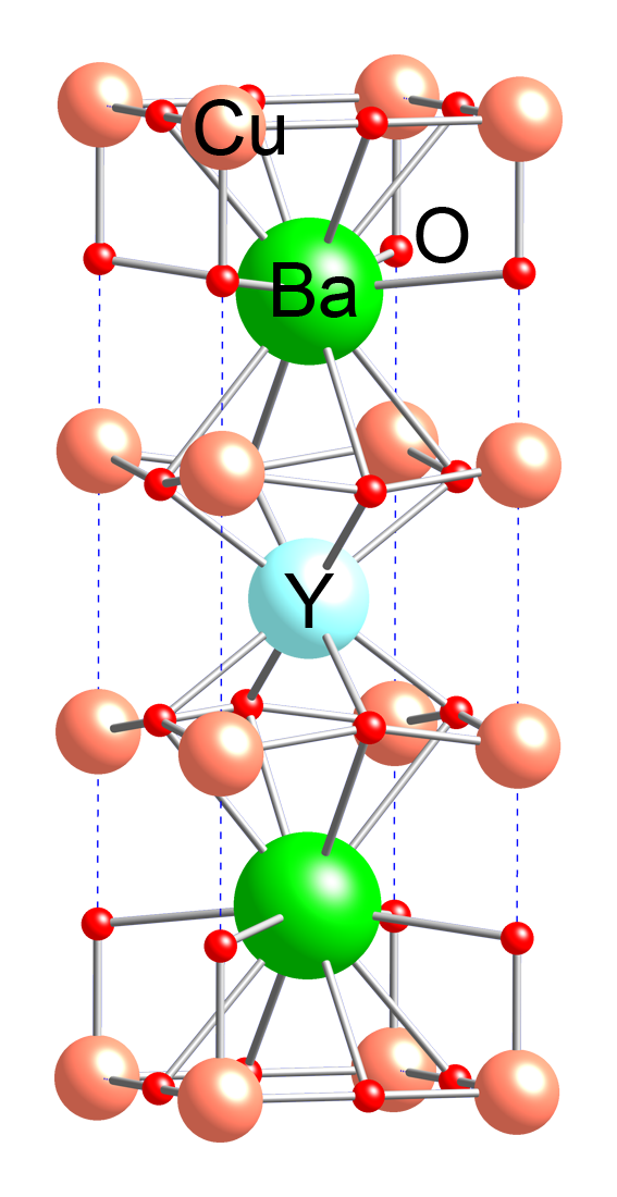 Ball-and-stick model of the unit cell of the high-temperature superconductor yttrium barium copper oxide, YBa2Cu3O7-. X-ray crystallographic data from K. Brodt, H. Fuess, E. F. Paulus, W. Assmus and J. Kowalewski (1990). "Untwinned single crystals of the high-temperature superconductor YBa2Cu3O7-". Acta Cryst. C46 (3): 354-358. Model constructed and image generated in CrystalMaker 8.1.